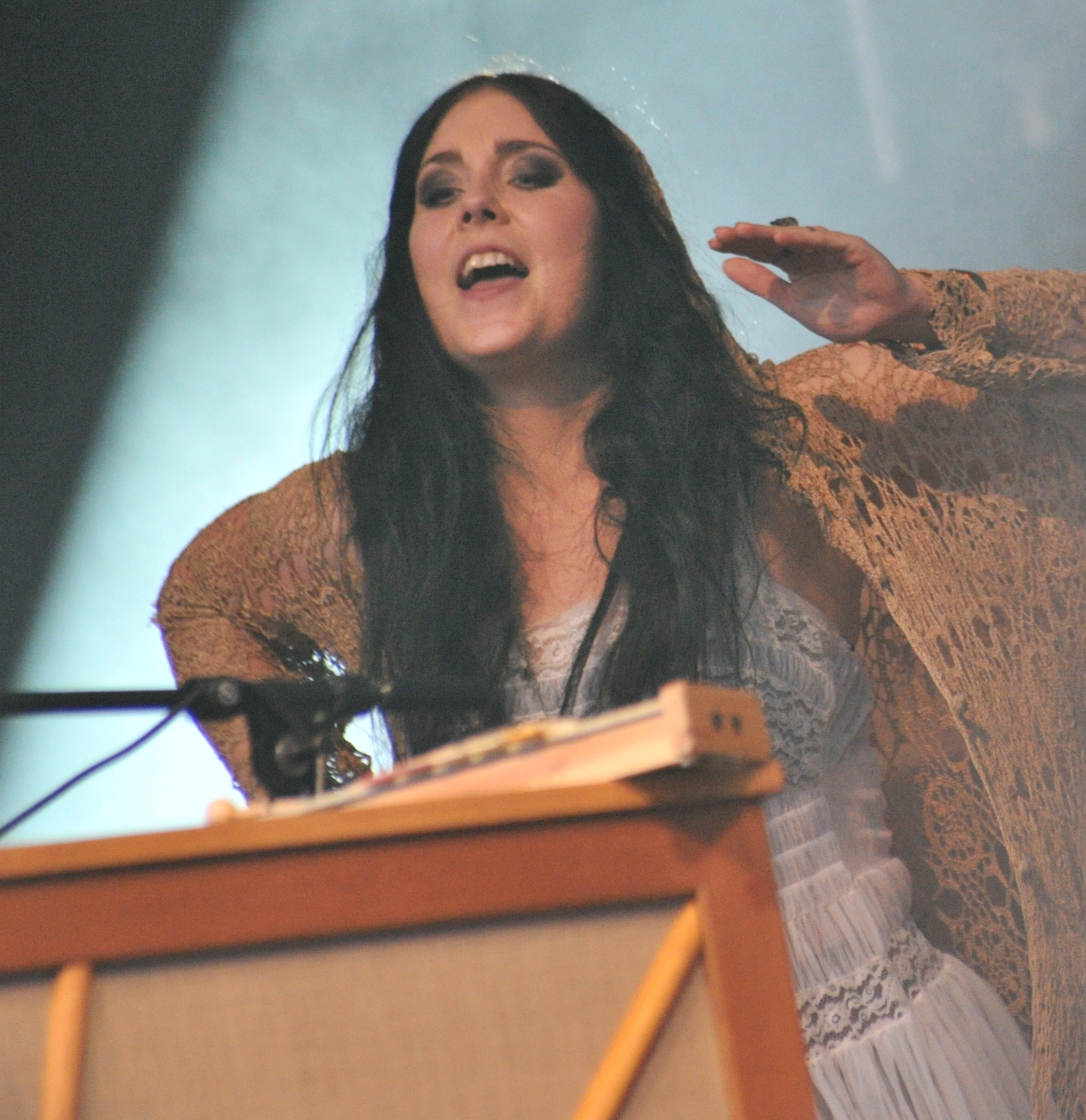 Miss Li performing in 2011